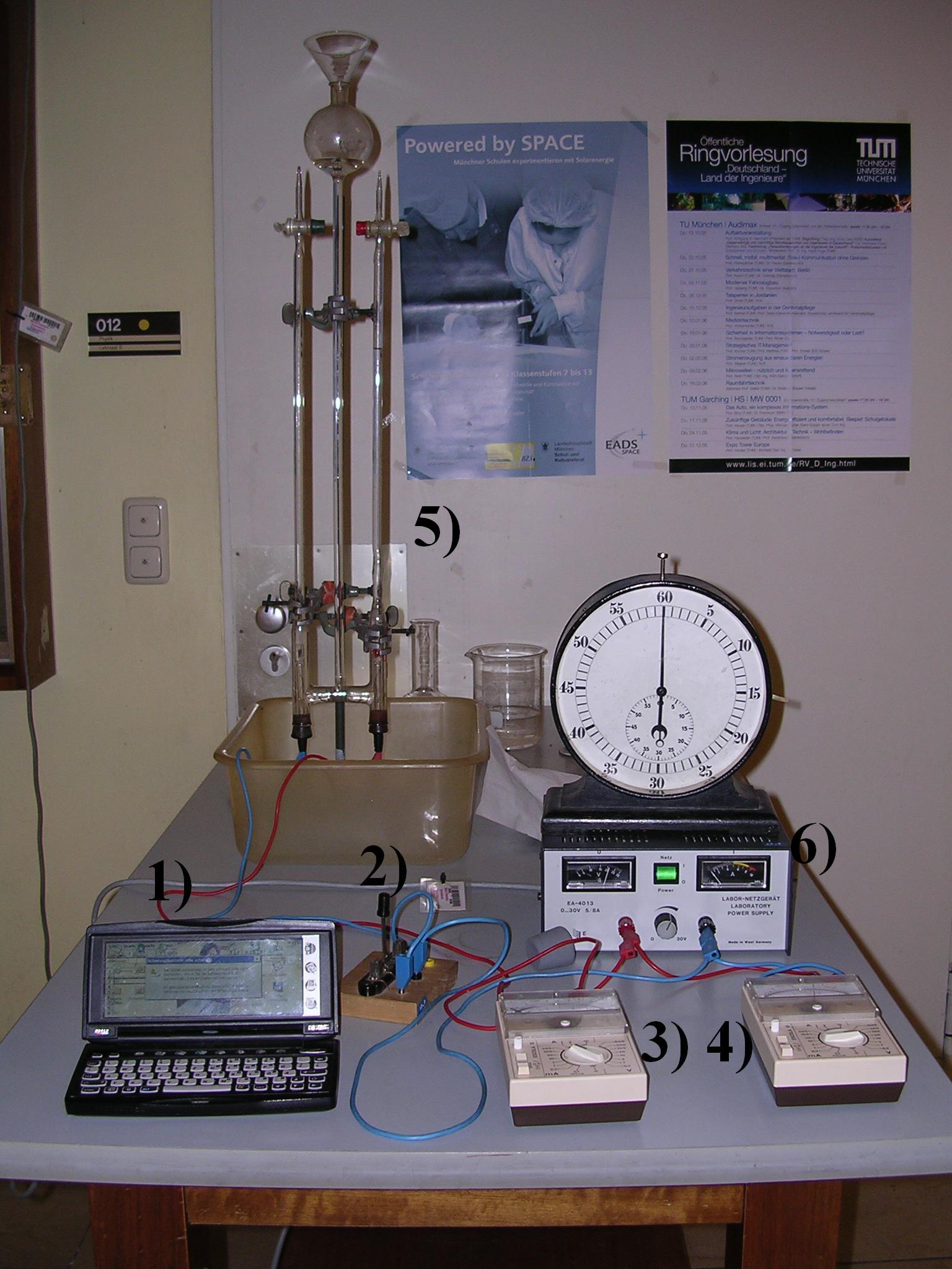 Electrolysis apparatus: 1)PDA for manual logging 2)Switch for activating process 3)Amperemeter 4)Voltmeter 5)The apparatus, filled with 1/3 SO2H2 and 2/3 H2 6)Power Supply, stabilized